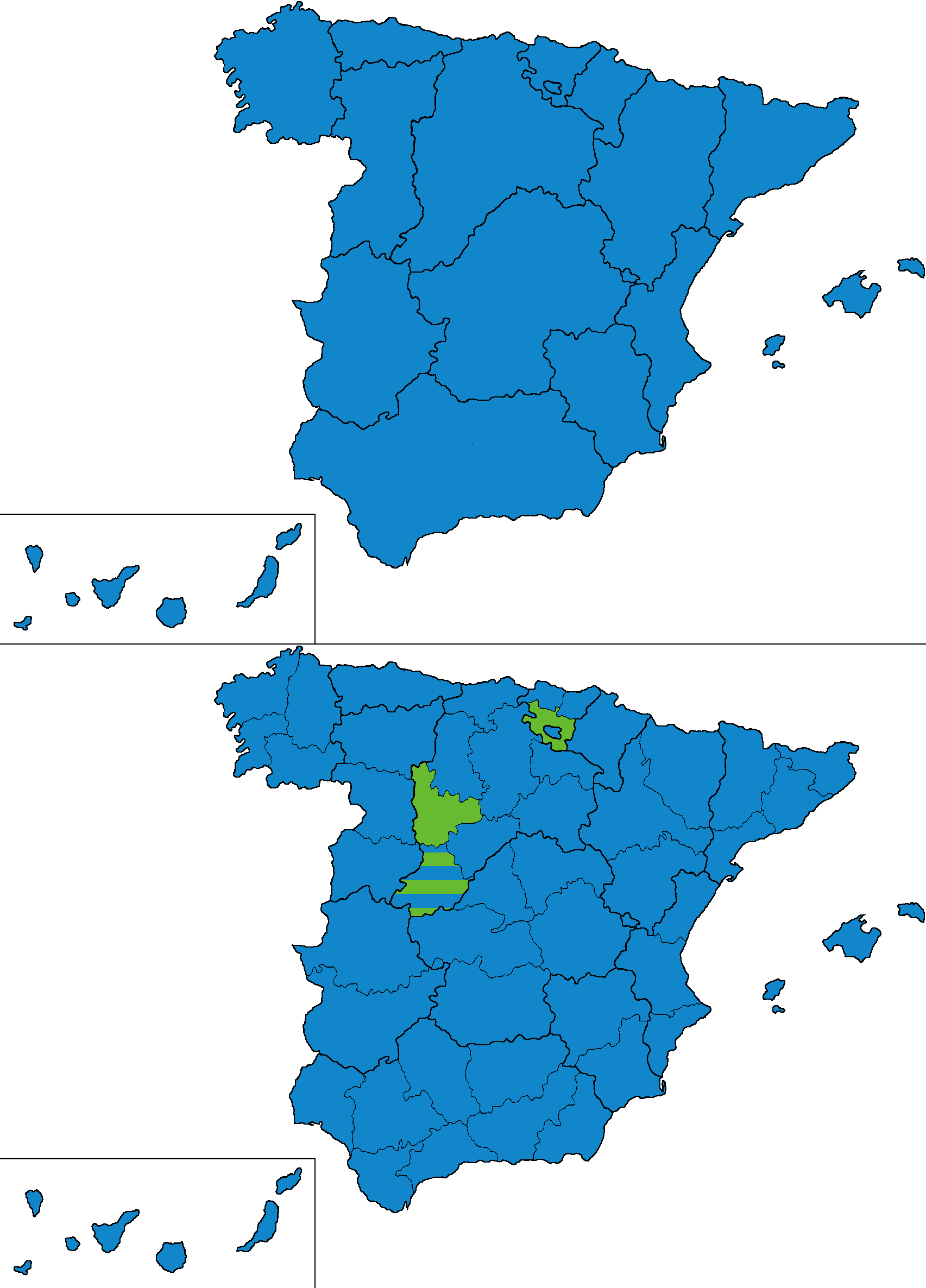 Most voted party in the 1876 Spanish Congress of Deputies election by regions and provinces.